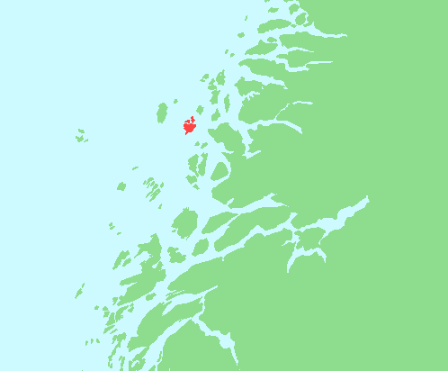 Locator map of Hestmona, Nordland, Norway